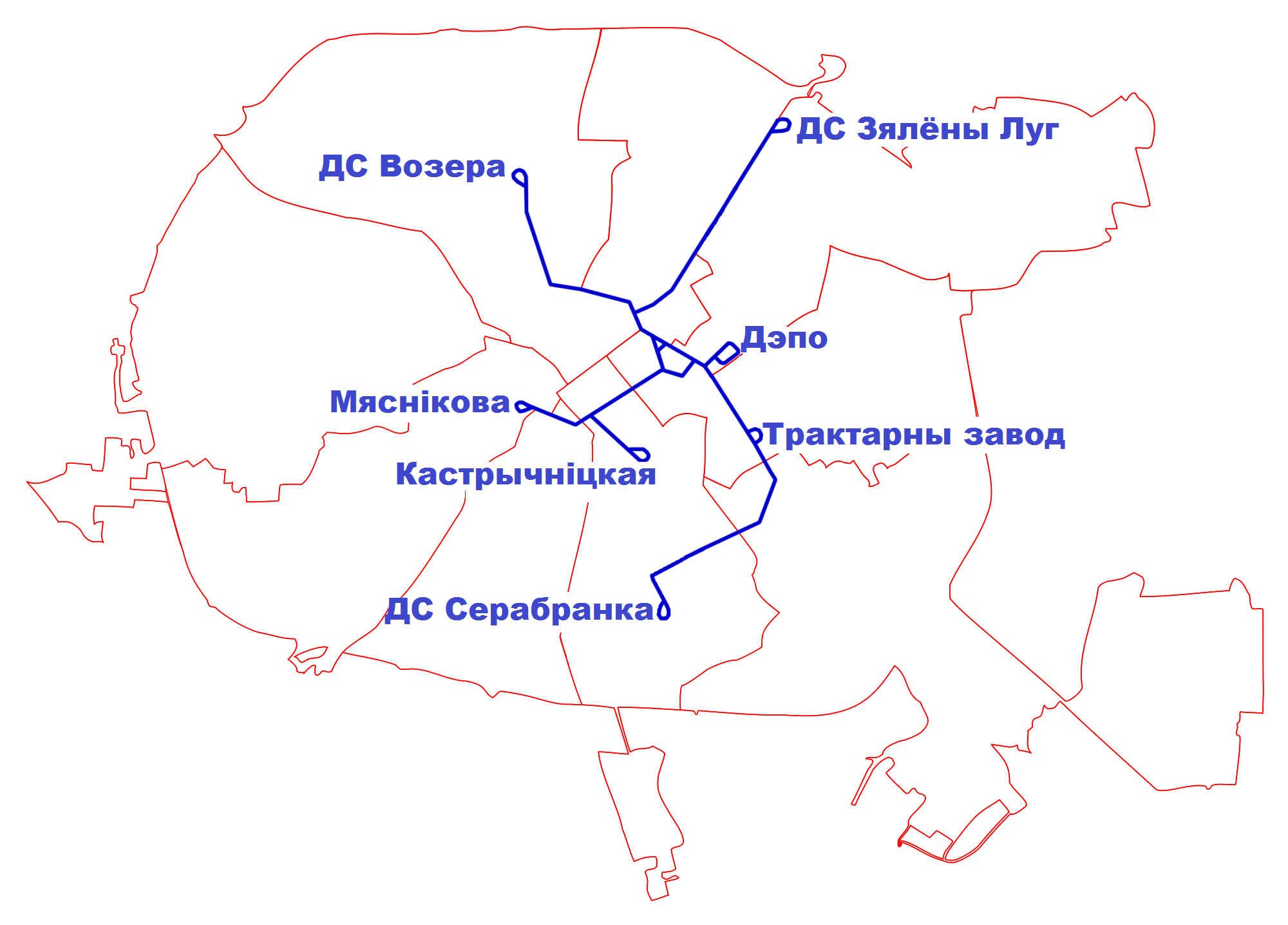 Actual map of tram lines in Minsk.